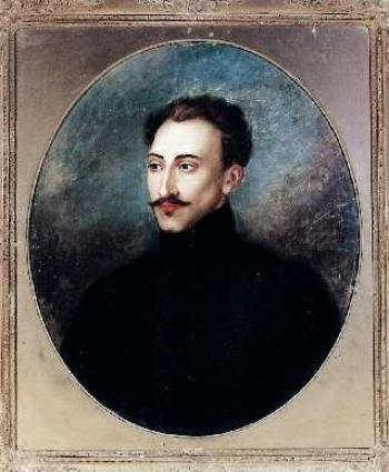 Alexander Ypsilantis, Ypsilanti, or Alexandros Ypsilantis